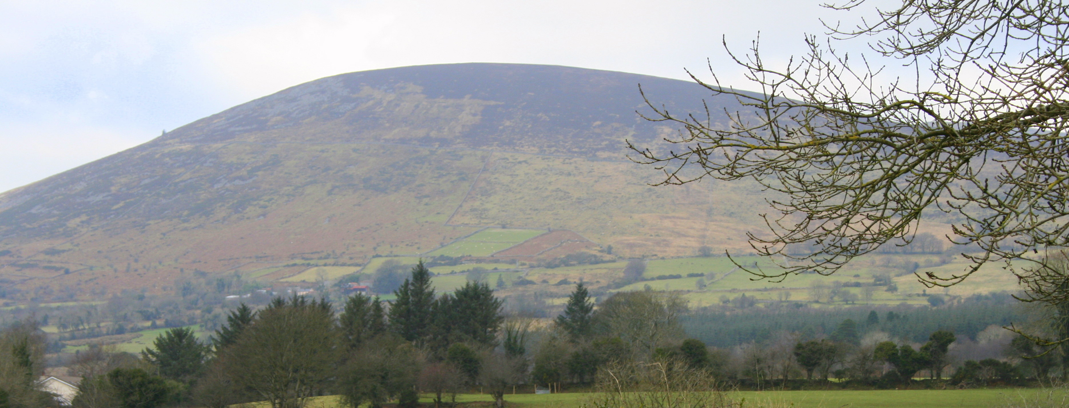 Keadeen Mountain viewed from Rathdangan, Co Wicklow, Ireland.